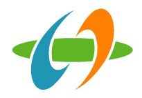 Inabe Mie chapter